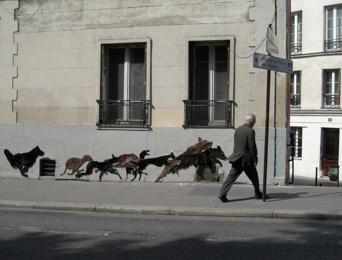 Chivvy